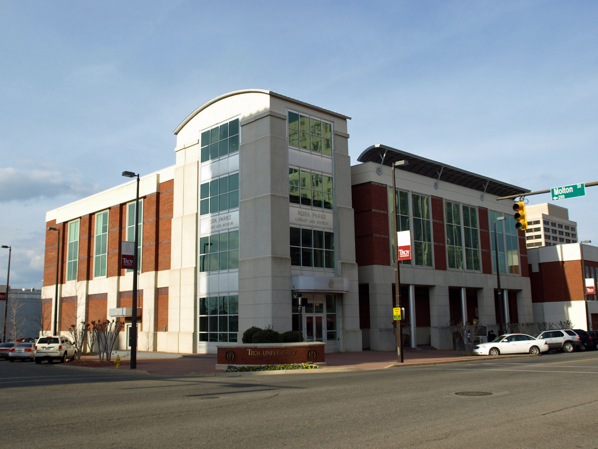 The Rosa Parks Library and Museum on Troy University's campus in Montgomery, Alabama